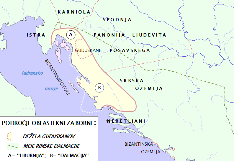 Map of duke Borna's territory is based on descriptions in Annales Regni Francorum; on the map of adriatic dalmatian islands from Klaić Nada (1990): Povijest Hrvata u srednjem vijeku. Zagreb, Globus= Map Podaci o Bizantinskoj Dalmaciji u »De Administrando imperii«.; on the parts of the maps in Čepič et al. (1979). Zgodovina Slovencev. Ljubljana, Cankarjeva založba. Pages 127 and 133 for borders in Istra, page 127 for border south of Una; on the retrospective method from »De Administrando imperii« descriptons of croat districts (zhupa) in X.th century without Livno, Pliva and Pesenta district- for example found in Klaić Nada (1990): Povijest Hrvata u srednjem vijeku. Zagreb, Globus, Page 76-77, or Šišić Ferdo (1990): Povijest Hrvata u vrijeme narodnih vladara. Zagreb, Nakladni zavod Matice hrvatske. Page 446. For borders of ancient Dalmatia look in Šišić Ferdo (1990): Povijest Hrvata u vrijeme narodnih vladara. Zagreb, Nakladni zavod Matice hrvatske. Map Panonija i Dalmacija u carsko vrijeme. From the retrospective method the influence of byzantine or frankish preassure are determined, for Lower Pannonia of Liudewit technique of reducing the frankish influence toward east was used.